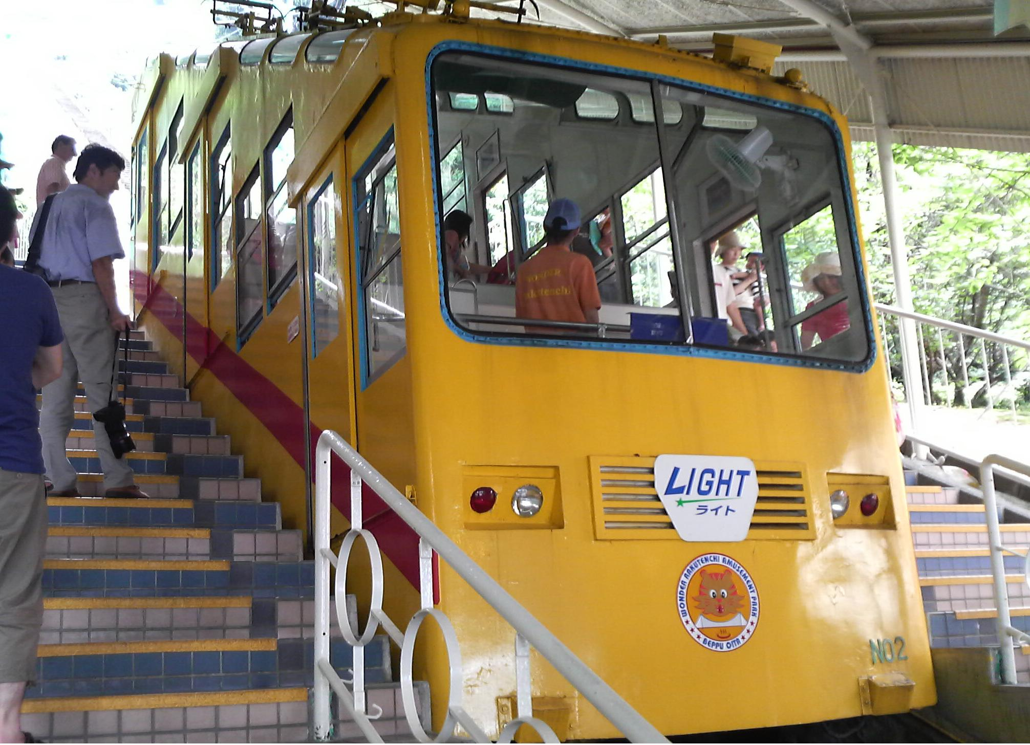 An amusement park in Beppu-City, a photograph of vehicle "Light Gou" of "Beppu Wonder Rakutenchi."